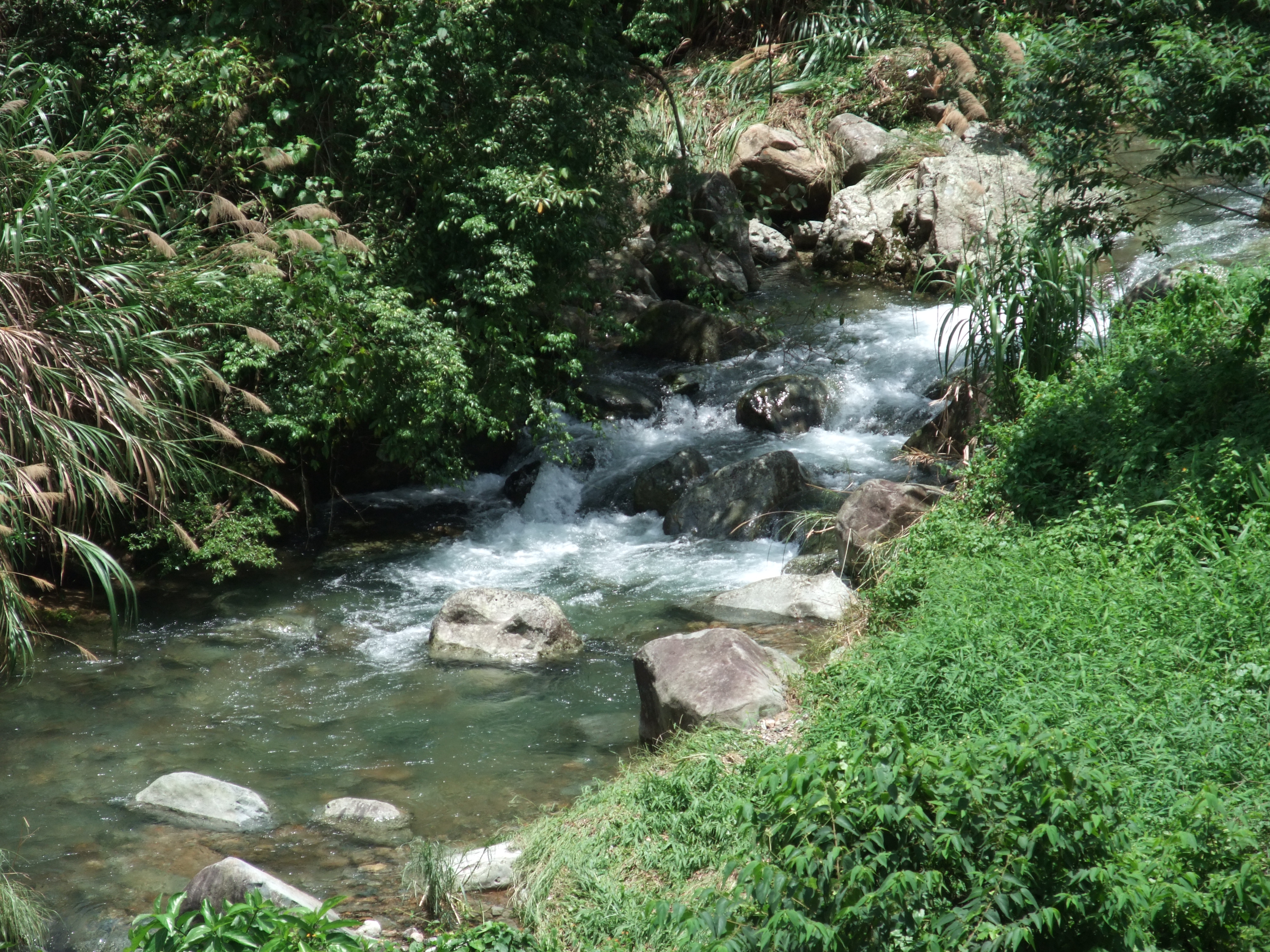 Photo of Lam Tsuen River